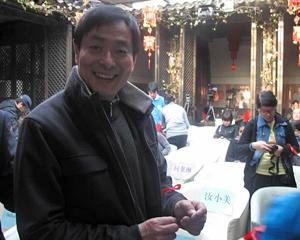 Pu Cunxin (Chinese: 濮存昕)